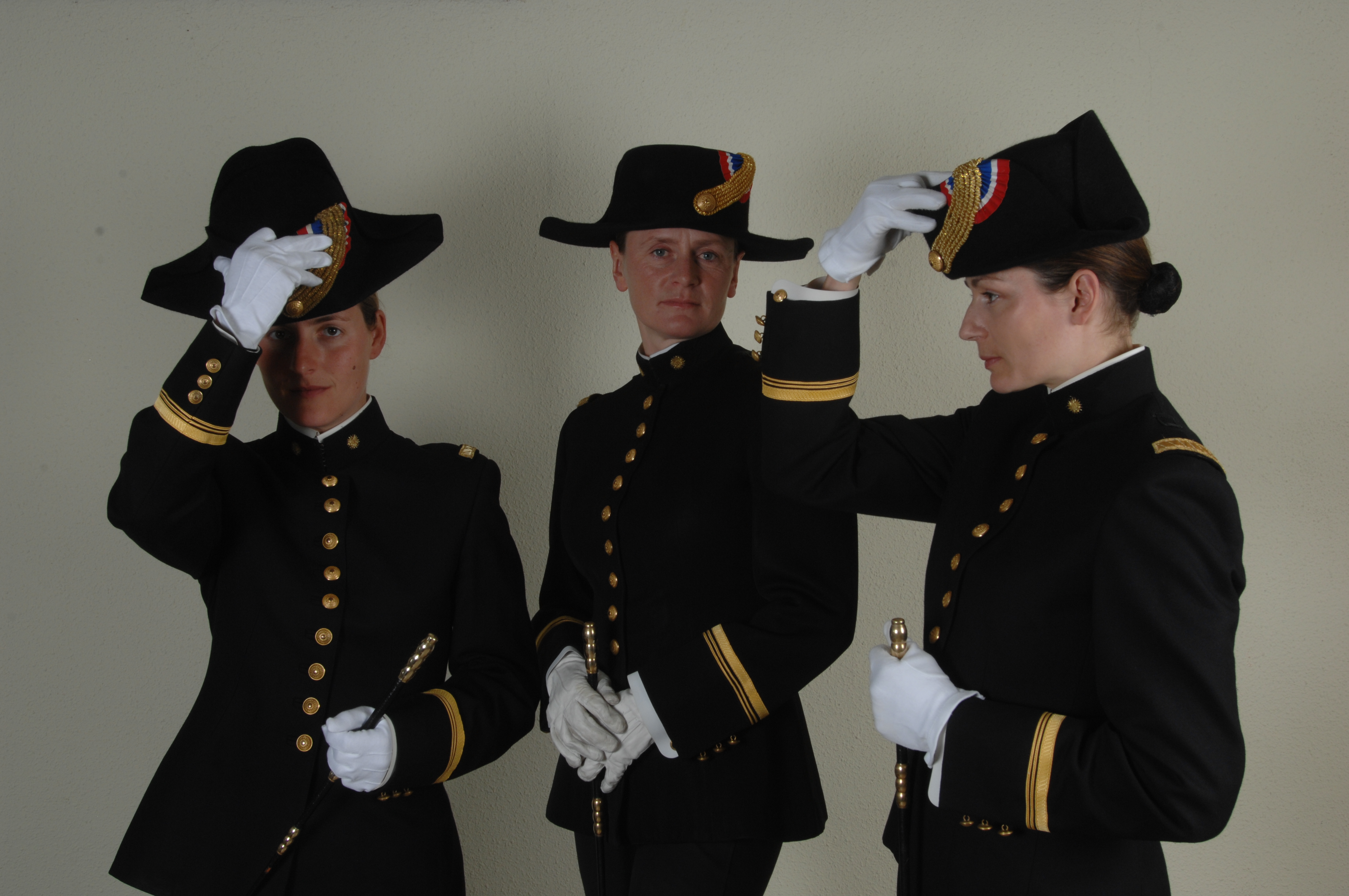 This photograph was taken by a Wikipedian, or provided by the Cadre noir, during a special day in May 2012 English | français | +/−